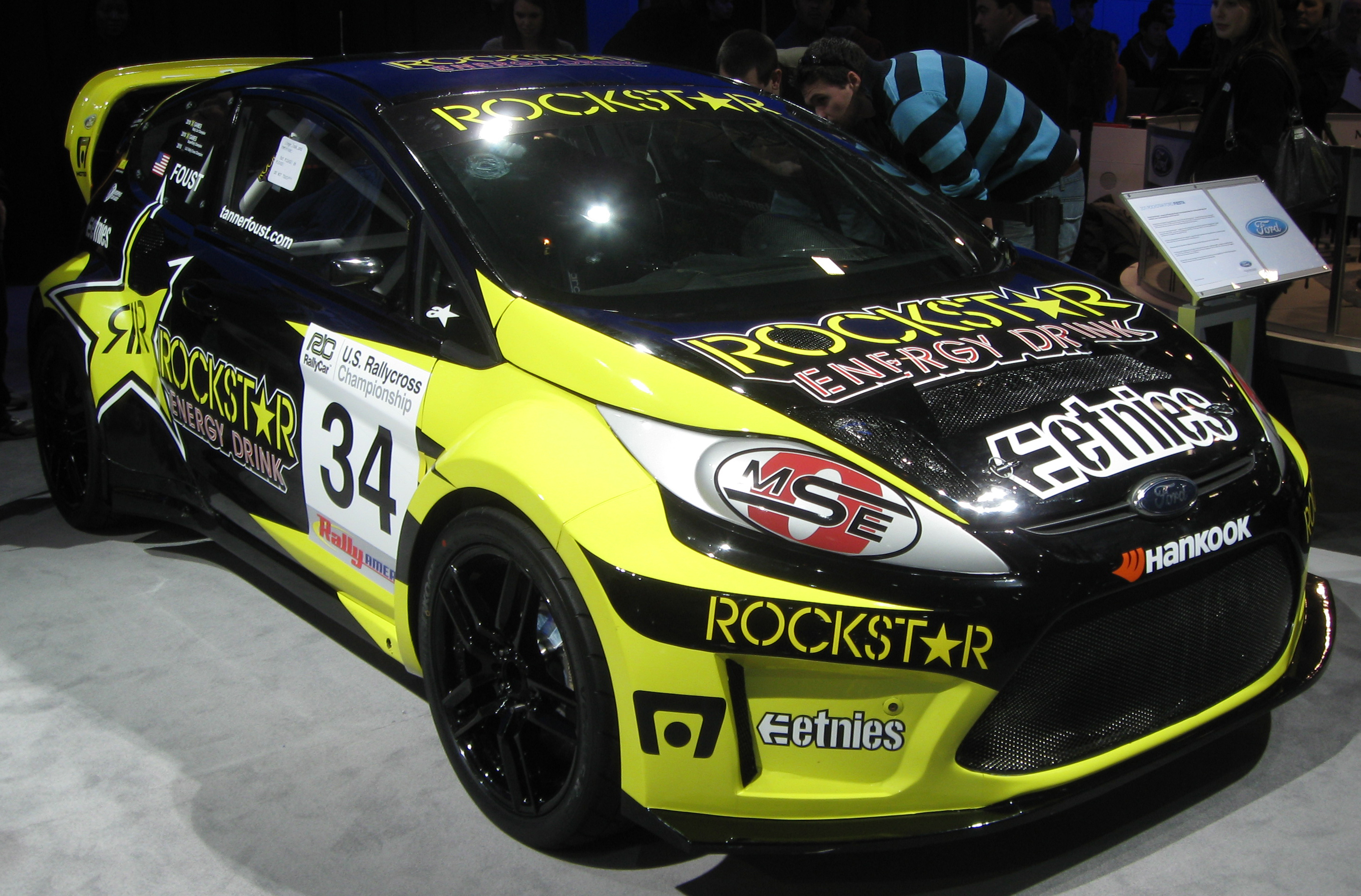 Ford Fiesta Mk7 Rallycross car photographed at the 2011 Washington (D.C.) Auto Show.